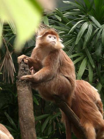 Description: Javan Lutung - Source: own work - Location: Bronx Zoo, New York - Author: self, User:Stavenn